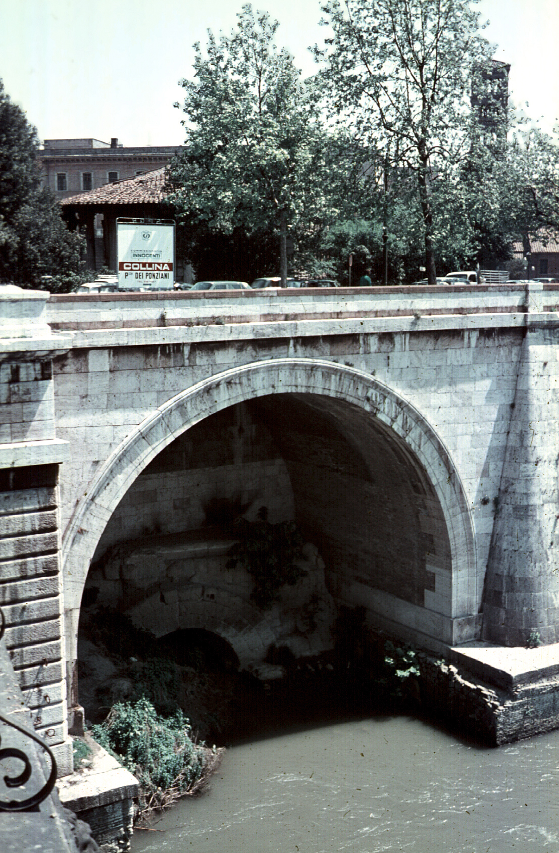 AWIB-ISAW: The Mouth of the Cloaca Maxima (I) The mouth of the Cloaca Maxima in Rome. by George W. Houston (1968) copyright: 1968 George W. Houston (used with permission) photographed place: Roma (Rome) Published by the Institute for the Study of the Ancient World as part of the Ancient World Image Bank (AWIB). Further information